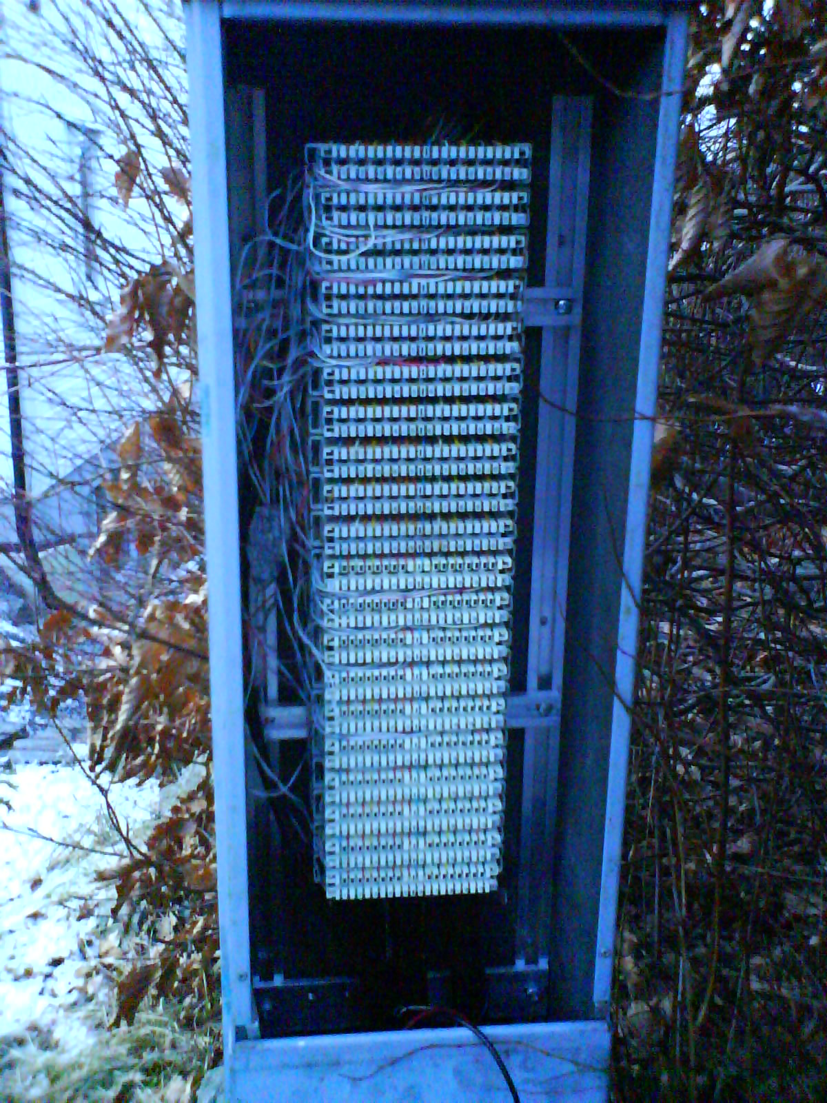 Norwegian cross connect box, SAI or a telco can